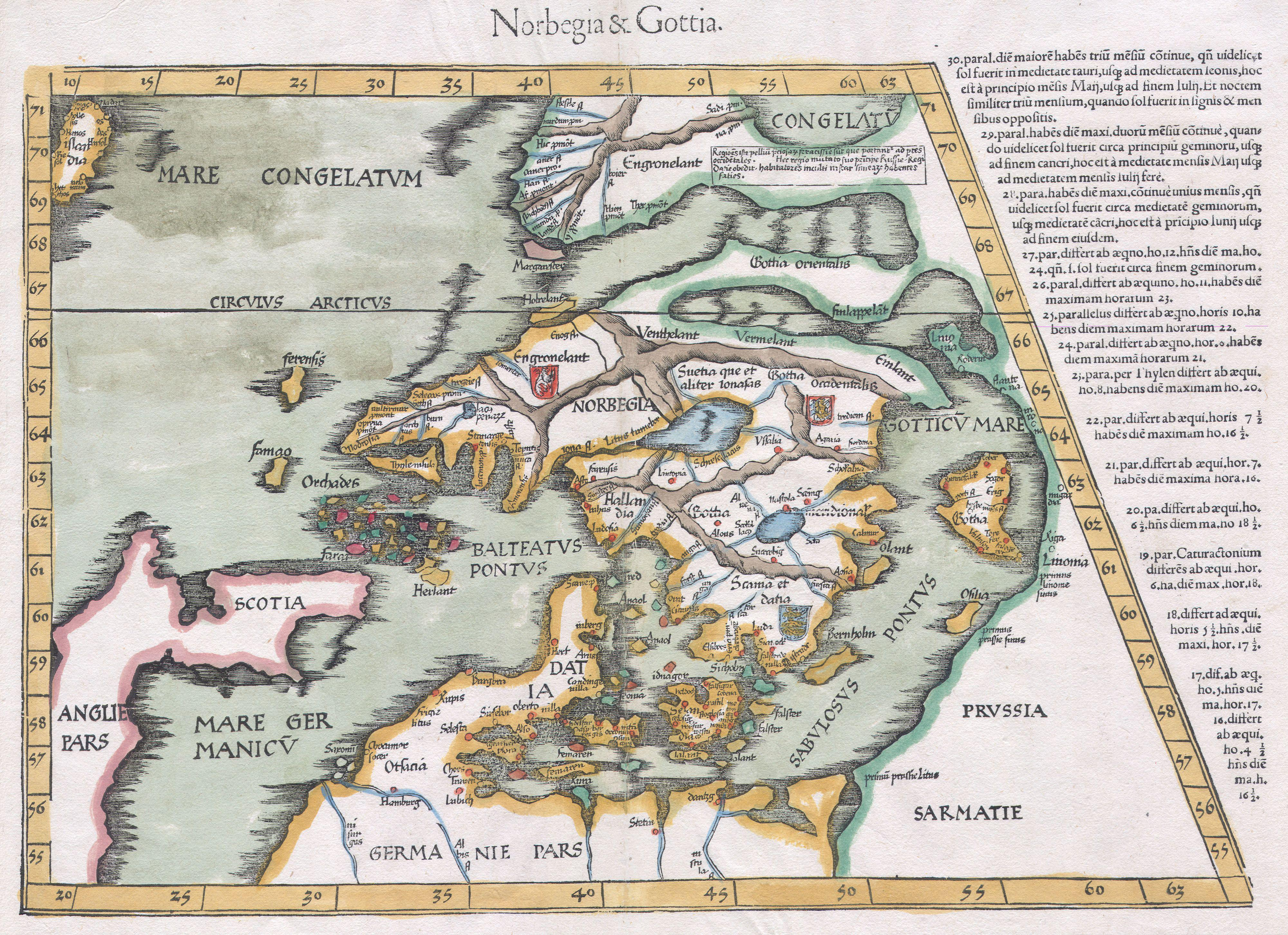 A masterpiece. This is an important early map of Scandinavia by cartographer Martin Waldseemuller. It is heavily based on the similar map by Claudius Clavus, which appeared in the 1425 [sic] Ulm edition of Ptolemy's Geographia. The most notable difference between this edition is the addition of armorial shields for the Scandinavian countries. In this map, much of the geography is conjectural at best. Iceland, Norway, and Sweden are nearly unrecognizable. At the top of the map, Greenland appears connected to the mainland by a narrow land bridge. The text on the right describes the lengthening hours of daylight as a traveler moves north. The woodcuts for this map were prepared by Lorenzo Fries. The text was edited by Michael Servetus, who was later burned at the stake for his outspoken heresies against the Holy Land.